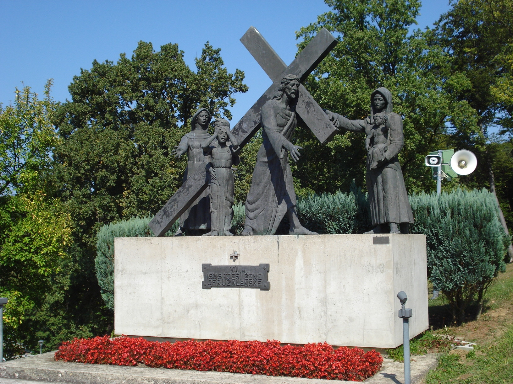 Marija Bistrica - The Way of the Cross, station 8 (Croatia)